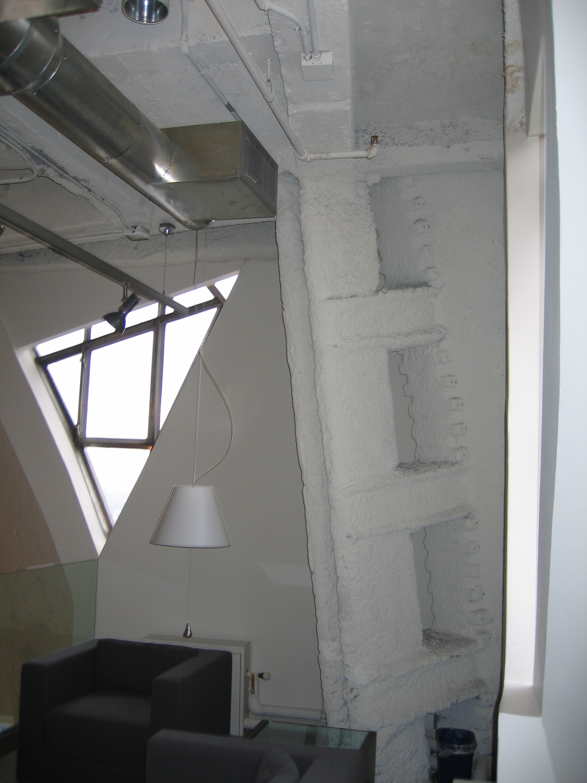 Detail Chrysler building